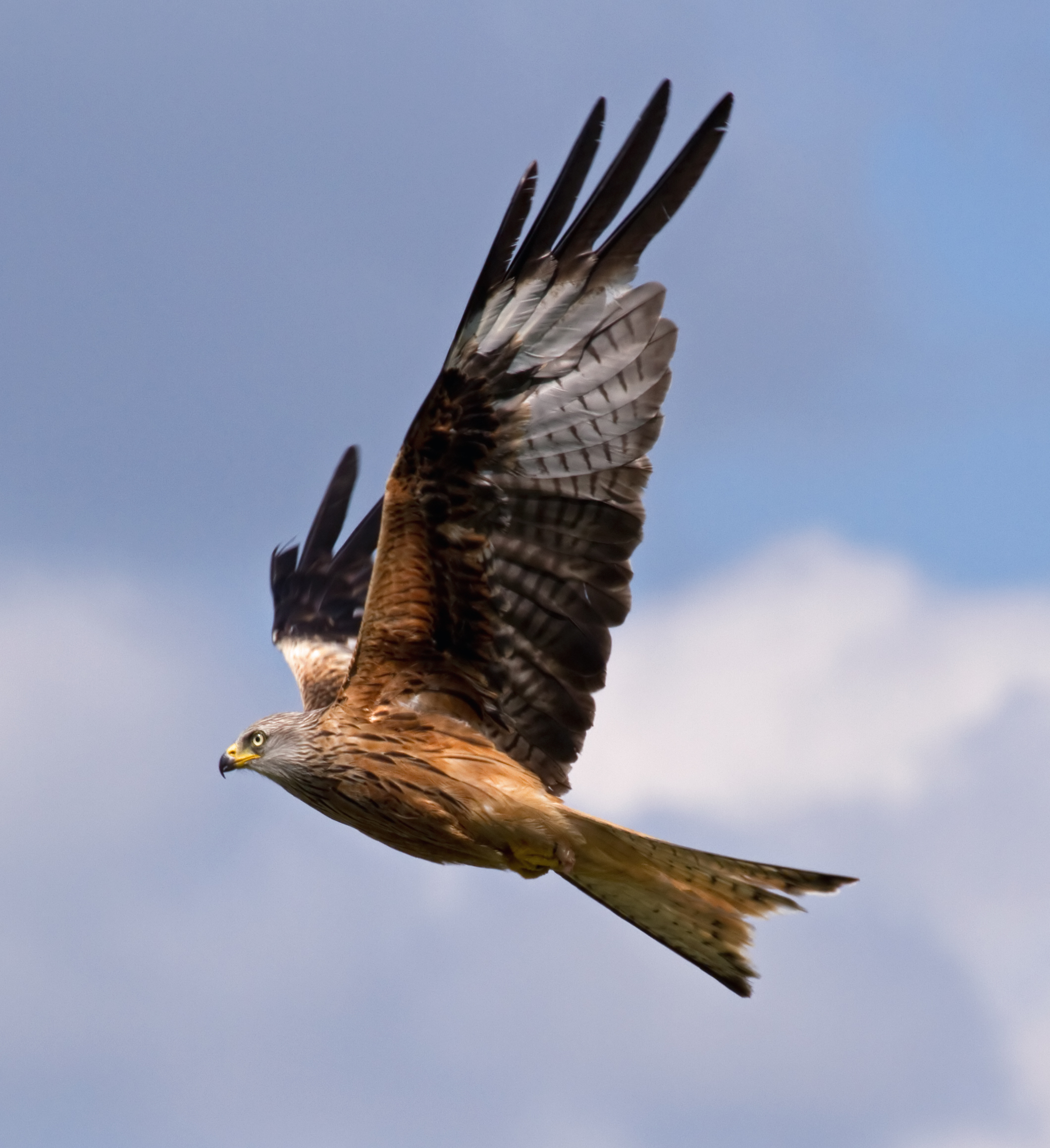 We went to the Kite feeding centre in Rhayader to watch the Red Kites. I took hundreds of photos, but have uploaded a selection.